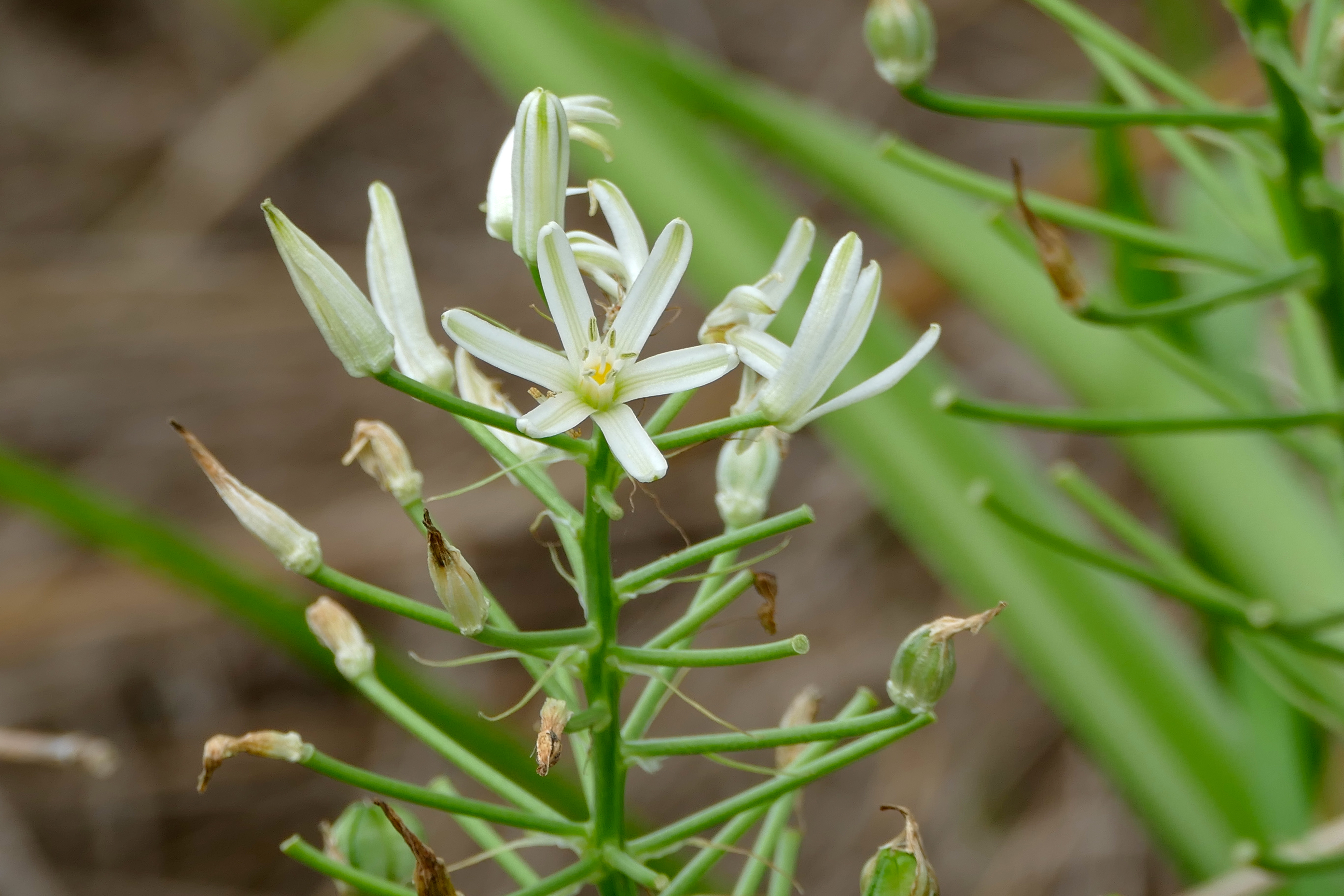 S129 Road North of Lower Sabie, Kruger NP, SOUTH AFRICA